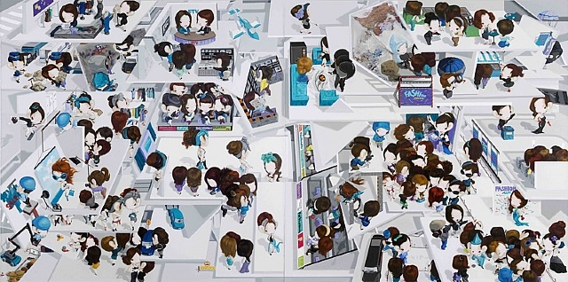 Han Yajuan. Fashion Ensemble. 2010. Painting. Oil on Canvas.